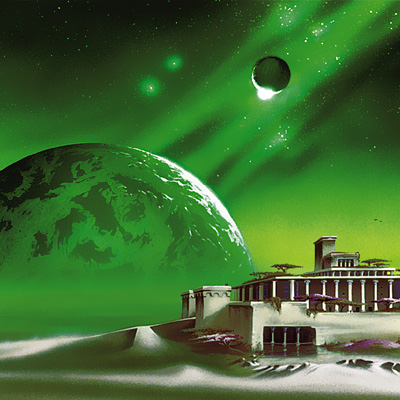 Rising Green. Painting in acrylics on canvasboard by German artist Frank Lewecke. Planet Rising on alien moonscape.